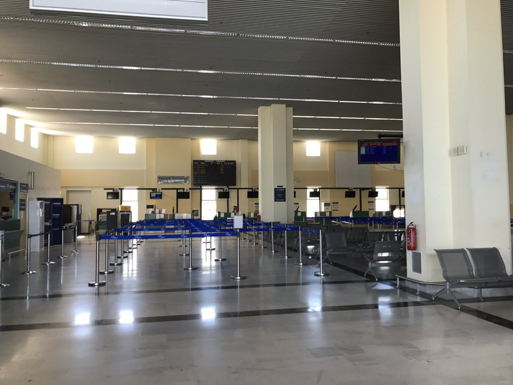 Picture of the check-in hall at Samos Airport, Samos, Greece. Taken 31 July 2017.